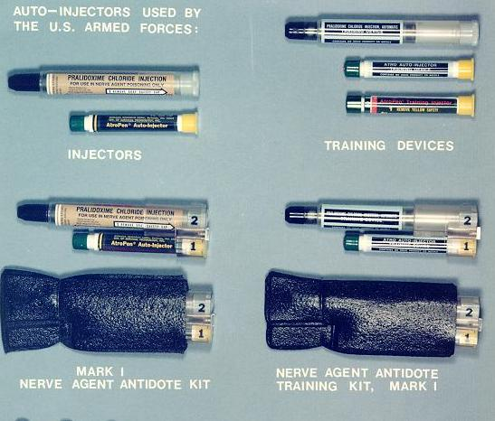 MARK I Autoinjector First Aid-Kit of the U.S. armed forces